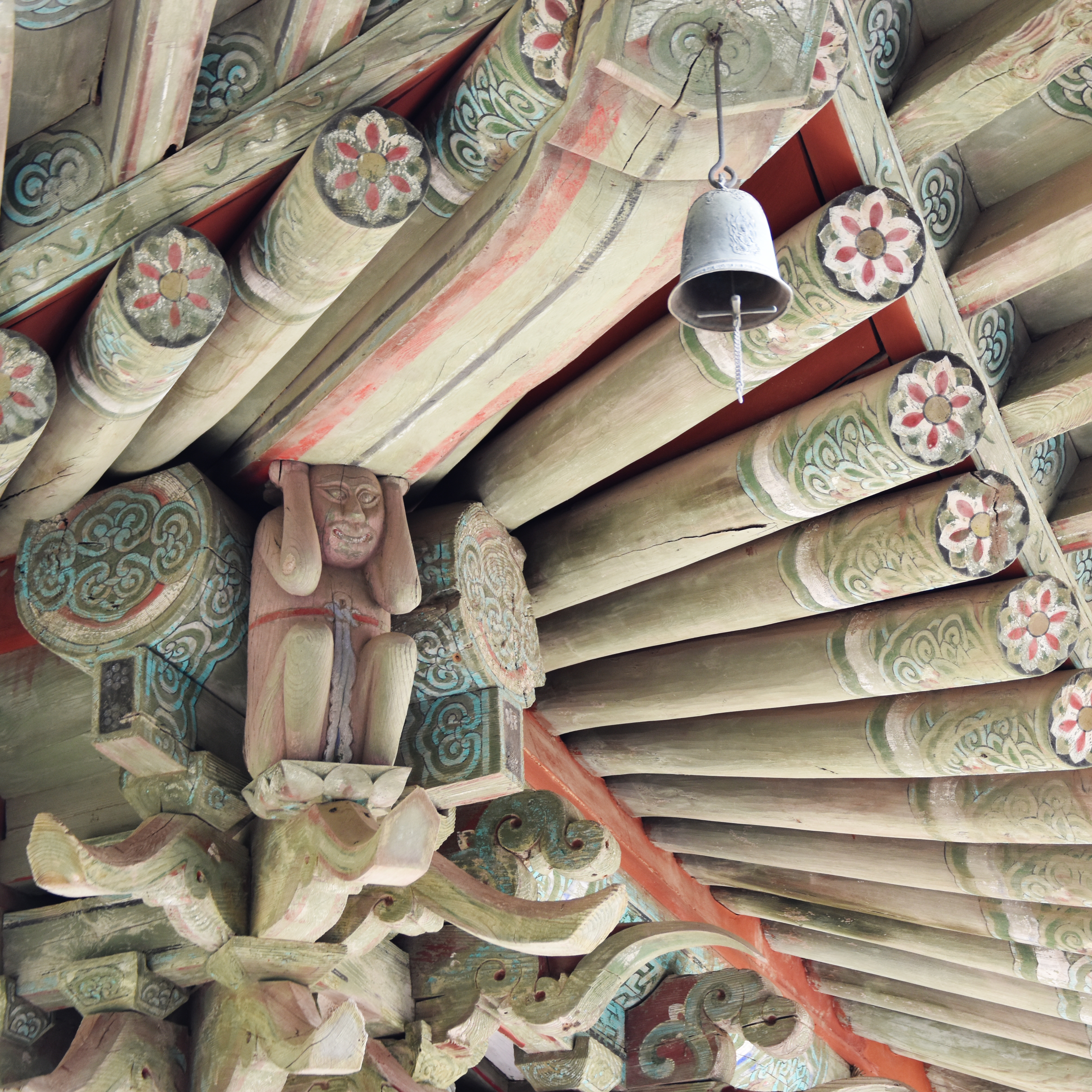 A wooden figure of Daewungbojeon of jeondeungsa, croped and changed the light curve